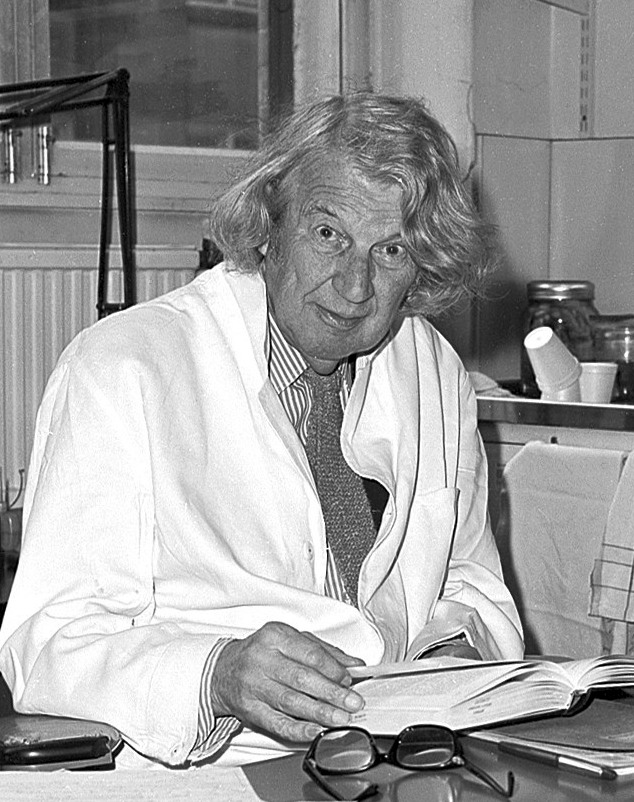 John Zachary Young in his room at the Wellcome Institute